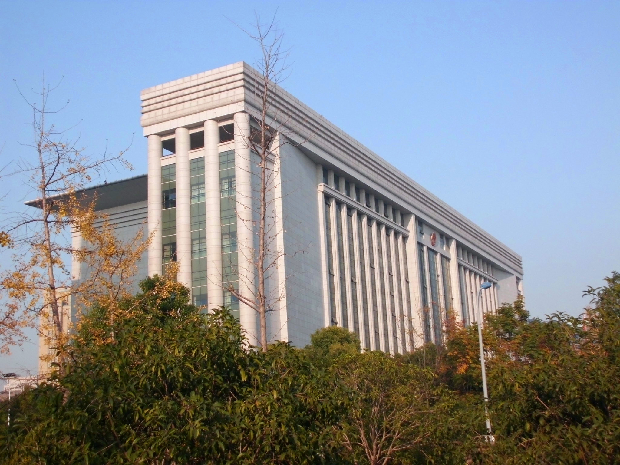 Hangzhou Intermediate People's Court